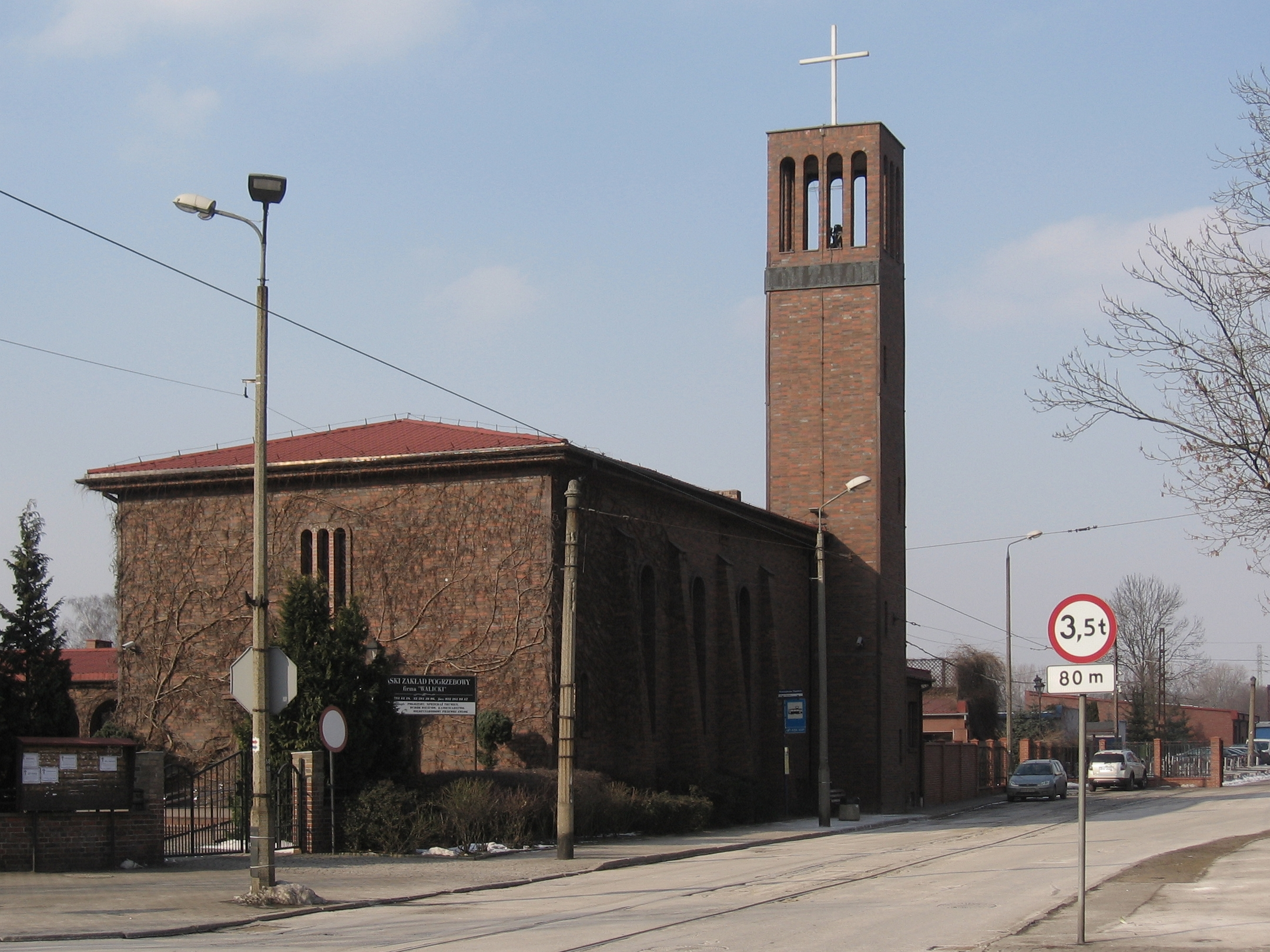 The funeral home in Bytom, Piekarska 99 street, Poland, cultural heritage monument (A/300/13) from 1933.